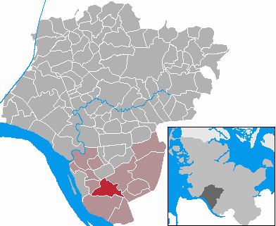 This map shows the area of the municipality Herzhorn in the Kreis (district) Steinburg, Schleswig-Holstein, Germany.